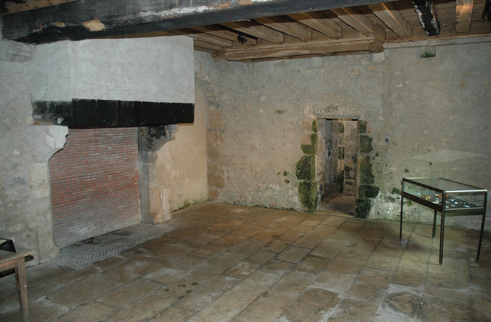 Château de Fougères-sur-Bièvre, former kitchen